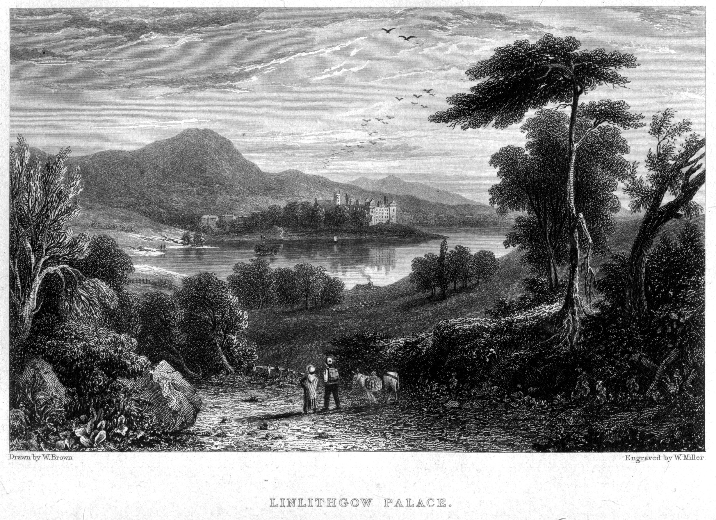 Linlithgow Palace, engraving by William Miller after W Brown, published in Select Views Of The Royal Palaces Of Scotland, From Drawings by William Brown, Glasgow; With Illustrative Descriptions Of Their Local Situation, Present Appearance, And Antiquities. John Jamieson. Cadell & Co & Simpkin Marshall, Edinburgh & London 1830